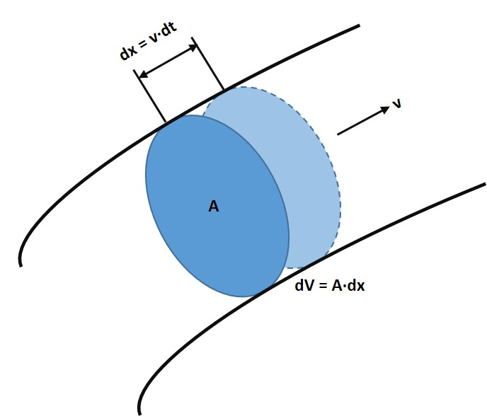 Flow tube